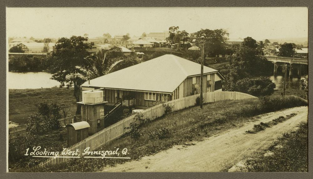 Looking west towards town and the bridge, Innisfail, 1930 Innisfail is one of the wettest cities in Australia and was established in 1880. Innisfail is basically a sugar town and its economy is largely dependent on the sugar plantations which surround the town, the bulk sugar loading facilities at Mourilyan and the numerous mills in the area.